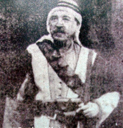 Saleh al-Ali (1884-1950) commander of the Syrian Coastal Revolt of 1919.